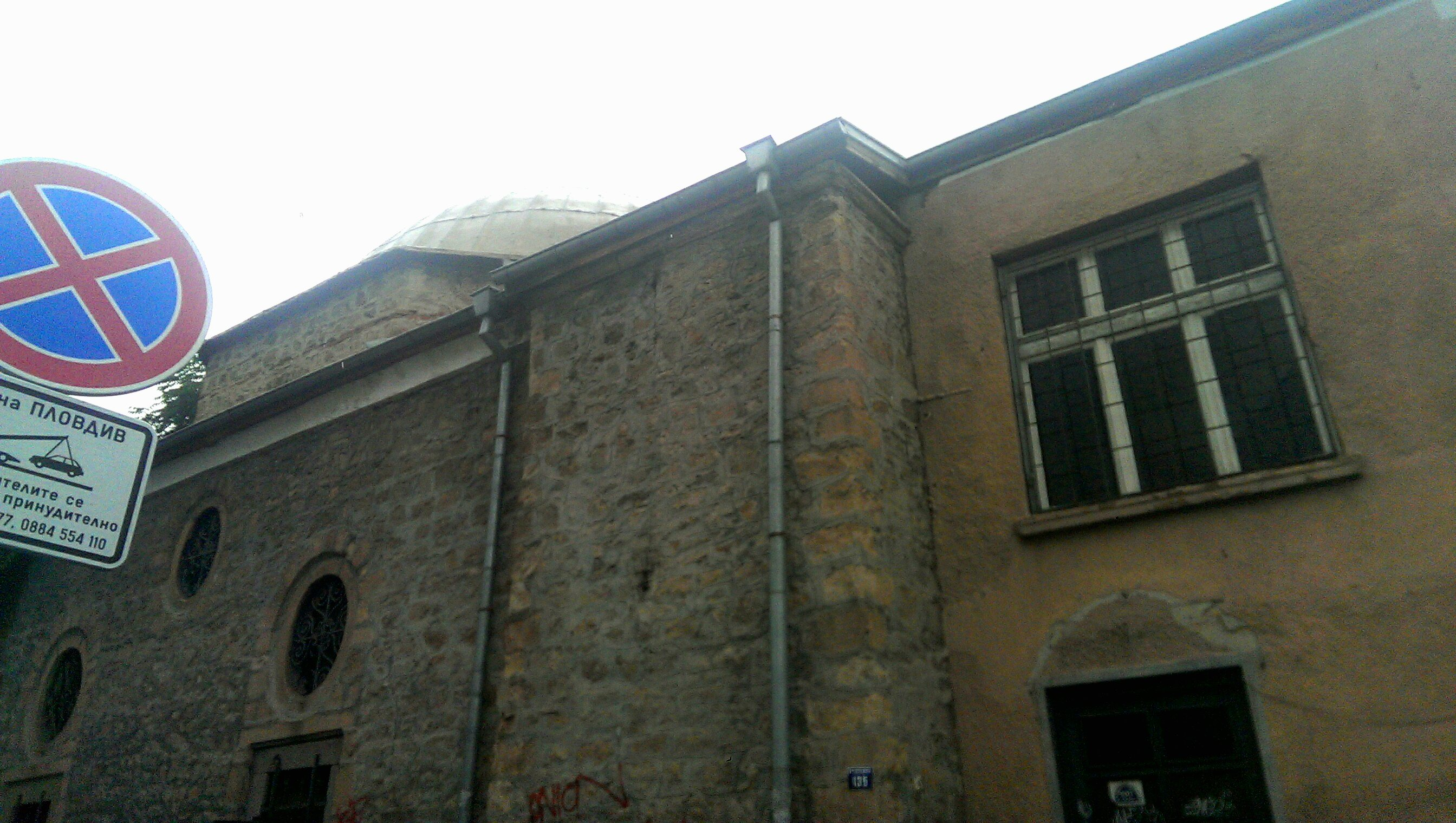 The view of the southern side of the historical Taskopru Mosque, a Turkish-Ottoman heritage in Plovdiv, Bulgaria.